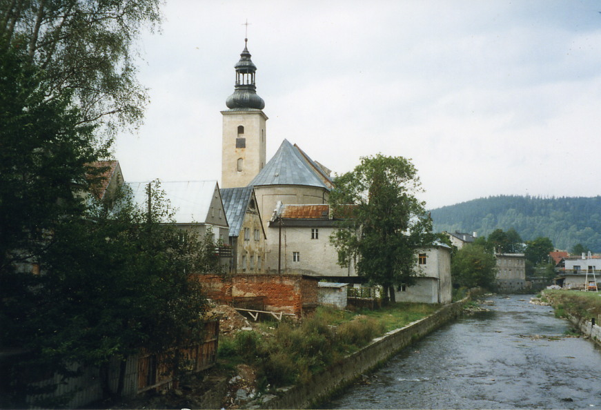 Church of the Nativity of the Virgin Mary in Lądek-Zdrój, PolandBad Landeck - Blick von der Johannesbrücke zur Kirche